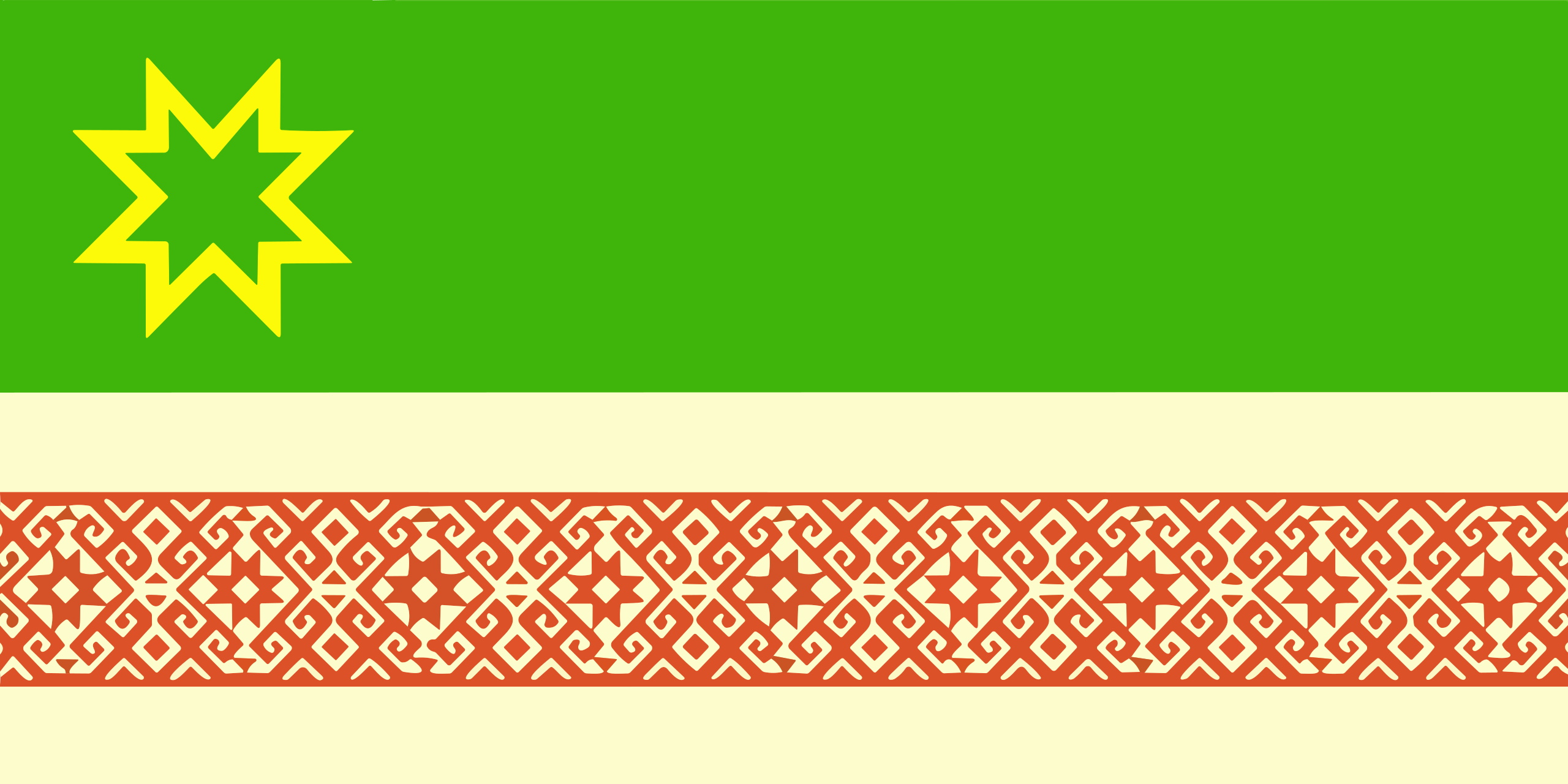 Flag of Chuvashia 1918 (reconstruction)